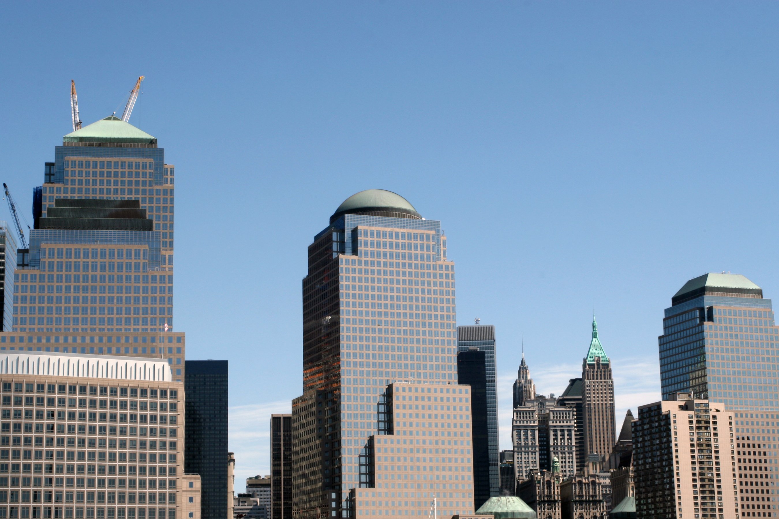 The World Financial Center as seen from the Circle Line tour boat. Showing towers 1-4 from right to left.